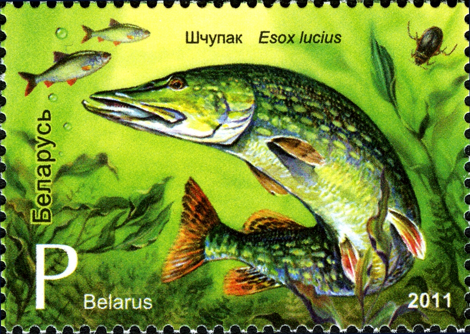 Stamp of Belarus